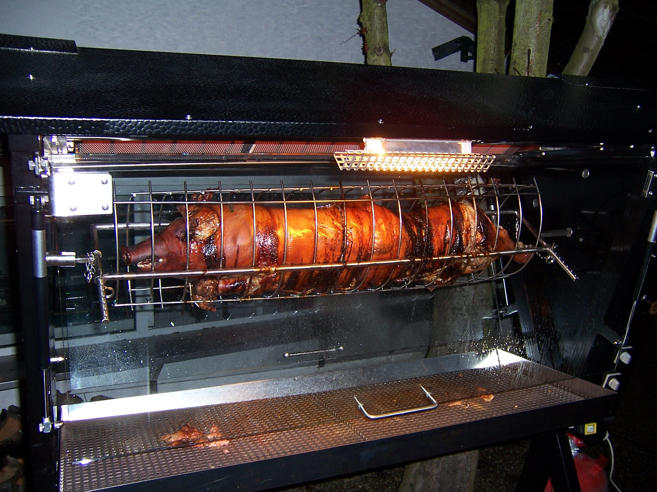 suckling pig in a grill basket in a ksf suckling pig rotisserie